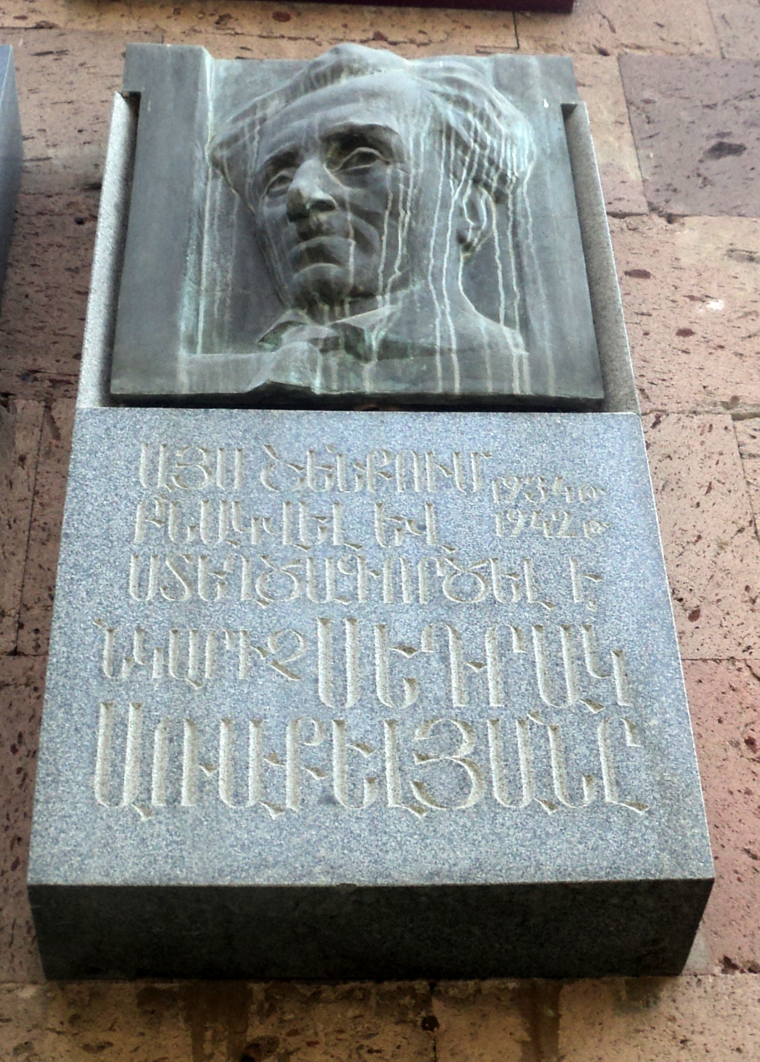 Սեդրակ Առաքելյանի հուշատախտակը Աբովյան 32 շենքի պատին